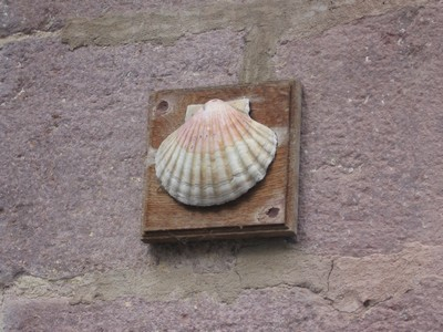 camino de santiago; St.Jean-Pied-de-Port